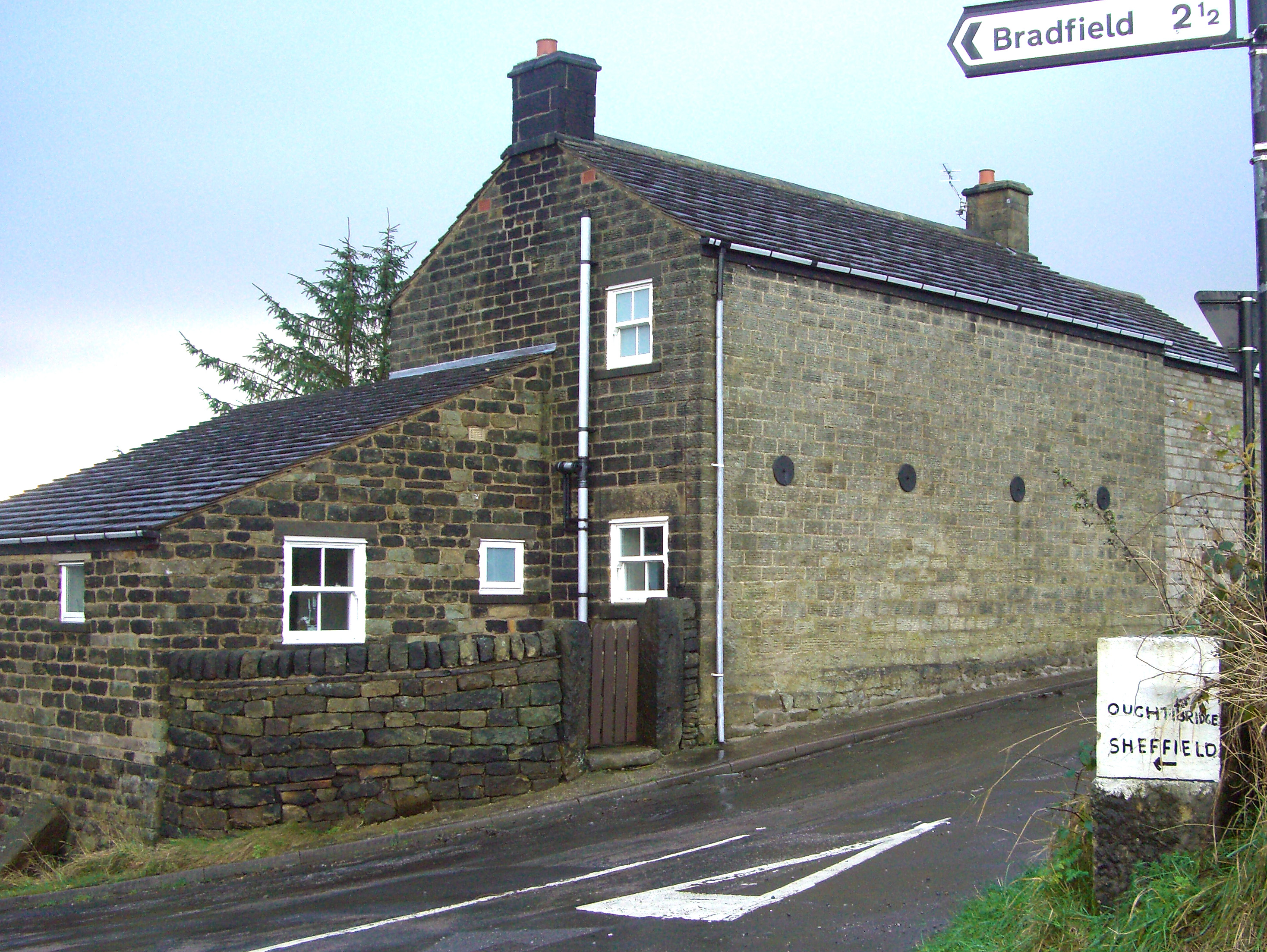 Rose Cottage in the hamlet of Brightholmlee, Sheffield, England.